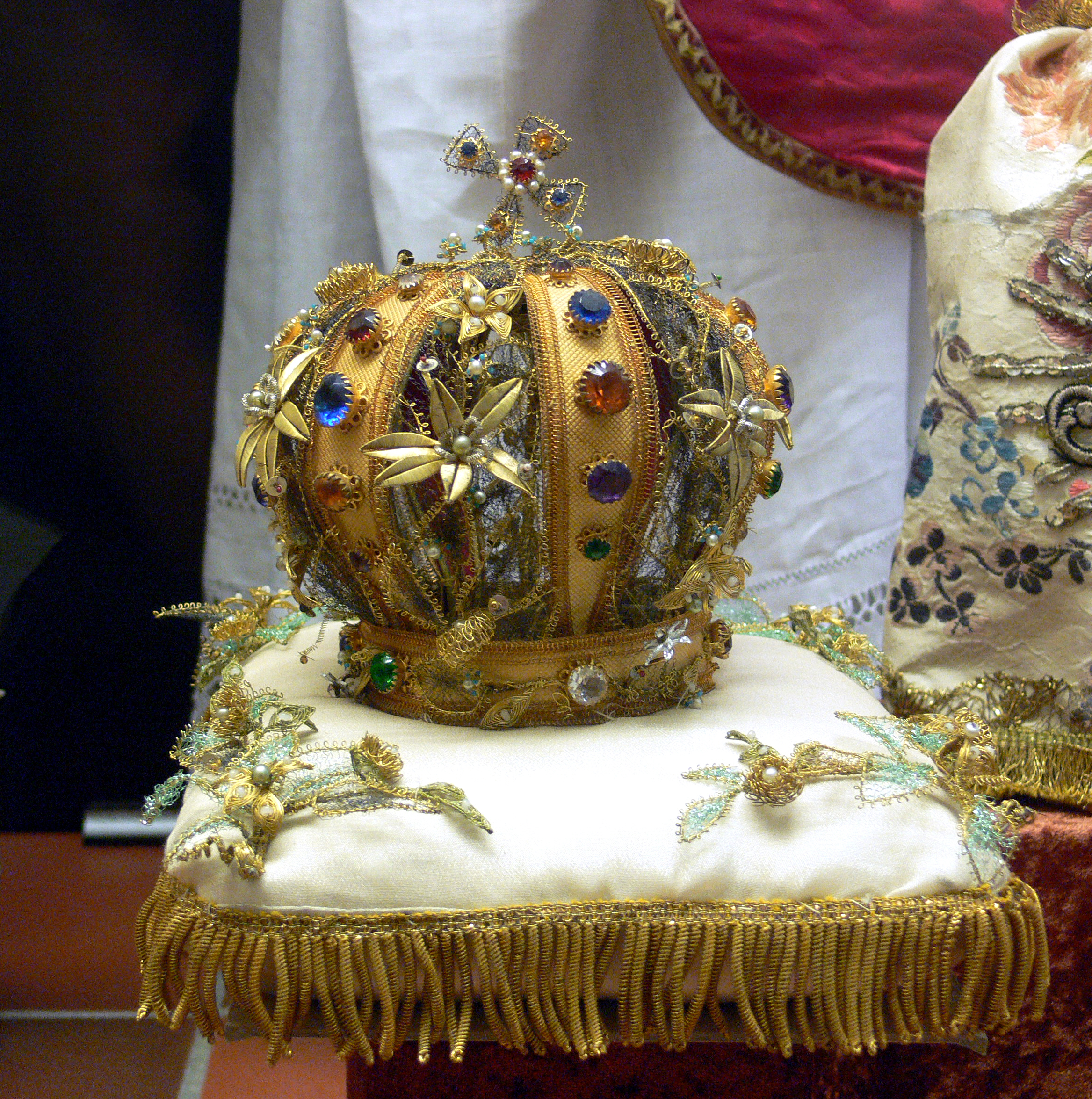 Crown made on the occasion of the first mass of priest Karl Wachter, c. 1930, made by the Domican nuns of Wettenhausen; Weingarten, Museum for Monastic Culture (gift of Hans Wachter, Weingarten, 2004)